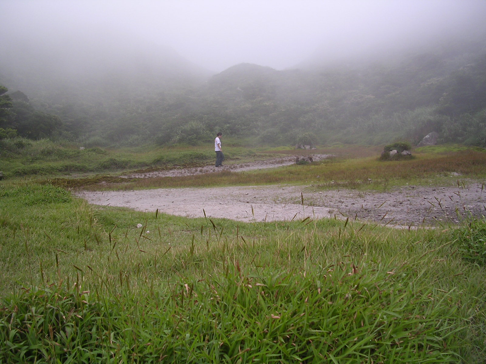 On the top of Mount Tenjosan, Kozushima, Izu Islands, Japan